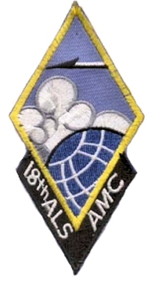 Emblem of the 18th Airlift Squadron - AMC - Heritage Emblem of 18th Air Transport Squadron